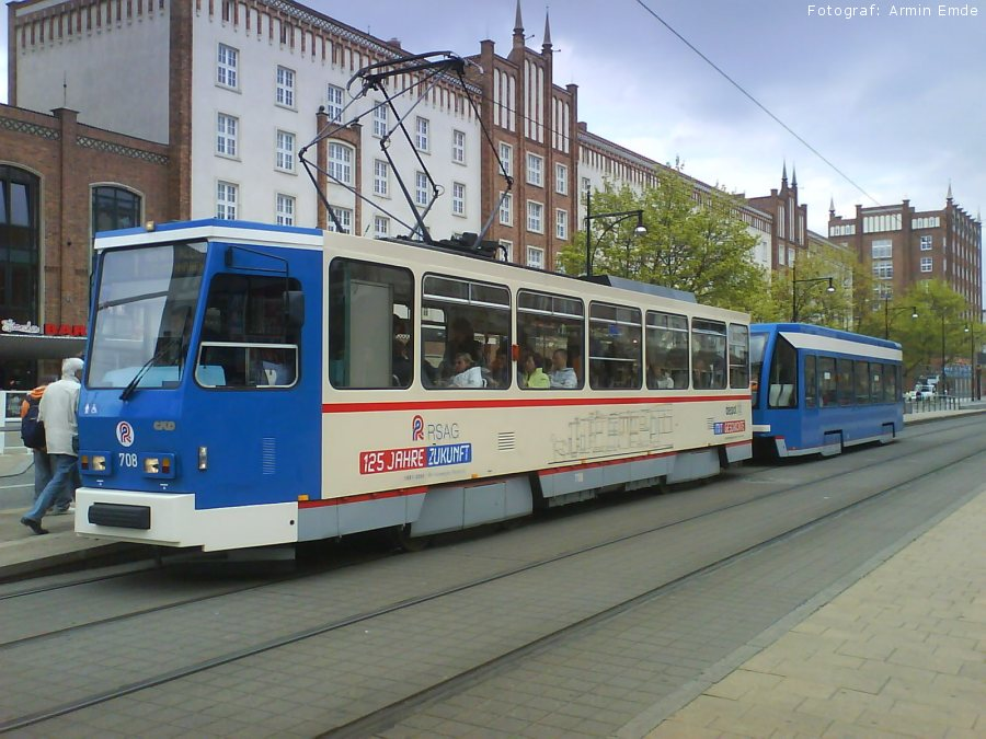 Tatra Tram at the Tram stop "Lange Straße" in Rostock